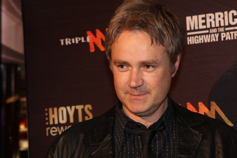 Julian Schiller, 2012 The Nullarbor Nymph opens and plays red carpet at Entertainment Quarter, Fox Studios, Sydney Merrick & The Highway Patrol threw a huge premiere for ‘The Nullarbor Nymph’ tonight at Hoyts, Fox Studios Australia - Entertainment Quarter, in Sydney. 'The Nullarbor Nymph' was made in the small Australian town of Ceduna and stars mainly local farmers. The film’s director Mathew Wilkinson had to clean toilets for months, just so that he could fund it. The movie has been turned away from every film festival in the world, so Merrick & The Highway Patrol want to get behind this tiny Aussie film by rolling out the red carpet and giving it the premiere it deserves! 'The Nullarbor Nymph' is a mockumentry following two Water Australia employees as they travel across the Nullarbor Plain only to be hunted down by the mythological creature the Nullarbor Nymph, a blonde, seductive temptress wearing kangaroo skins with a taste for destruction. Director: Mathew J. Wilkinson Writer: Mathew J. Wilkinson Stars: Douglas Feary, Paul Hayman and Jessica Sterling Websites The Nullarbor Nymph Facebook Triple M - Merrick And The Highway Patrol Eva Rinaldi Photography Flickr Eva Rinaldi Photography